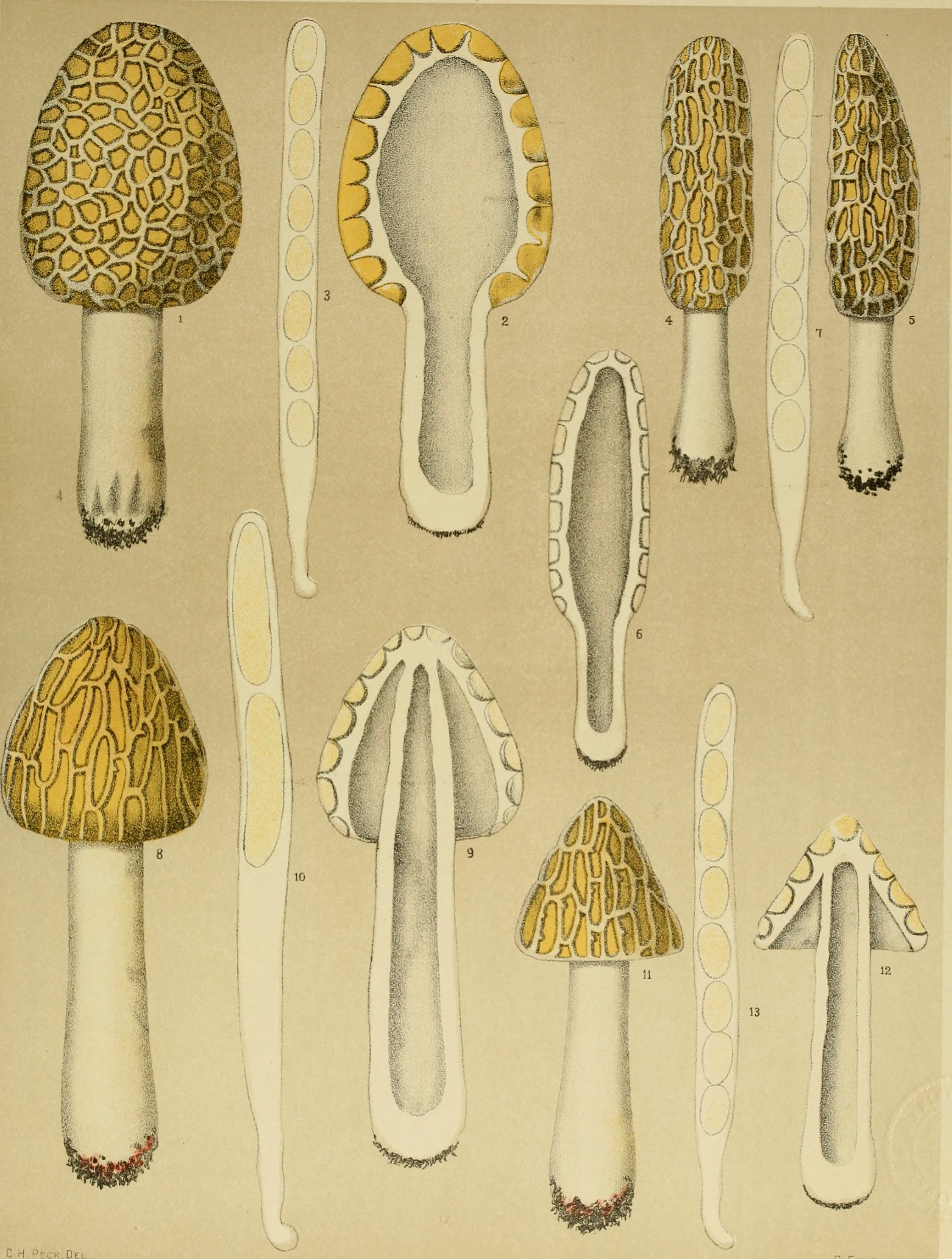 Title: Annual report of the state botanist Identifier: annualreportofst1897newy Year: 1897 (1890s) Authors: New York (State). State Botanist; Peck, Charles H. (Charles Horton), 1833-1917 Subjects: Botany -- New York (State); Fungi -- New York (State) Publisher: Albany, University of the State of New York Text Appearing Before Image: EDIBLE FUNGI. Plate 3 Text Appearing After Image: C.H PrcK.D r Fau Fios. 1 TO 3 MORCHELLA ESCULENTA pers. COMMON MOREL Fiss. 8T0 10 MORCHELLA BISPORA Sor. TWO-SPORCD MOREL Fi6s. 4 TO 7 MORCHELLA DELICIOSA Fh. DELICIOUS MOREL Fios. 11 TO 13 MORCHELLA SEMILIBERA fm. HALF-FREE MOREL